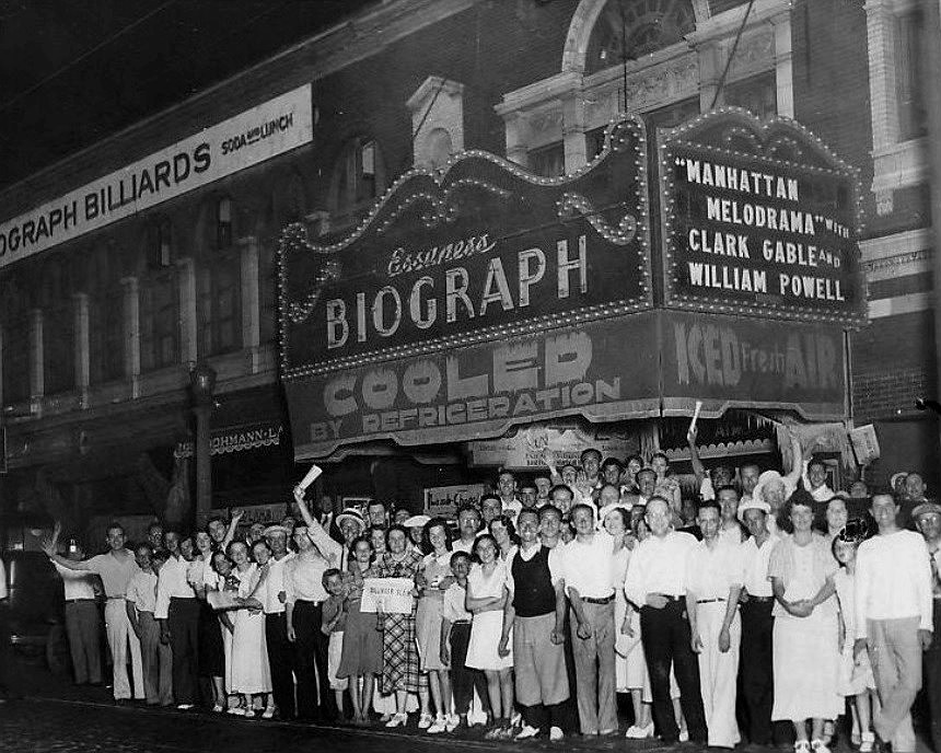 The crowd at Chicago's Biograph Theater on July 22, 1934, shortly after John Dillinger was killed there by law enforcement officers. The extra edition newspapers with the headline "Dillinger Dead" are being displayed and waved by some in the crowd. Manhattan Melodrama as shown on the marquee, was playing at the time.